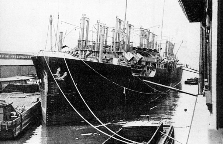 The Italian steamer SS Milazzo, the largest cargo ship and the largest collier in the world at the time of her construction in 1916. She was sunk by Austro-Hungarian submarine U-14 in August 1917.